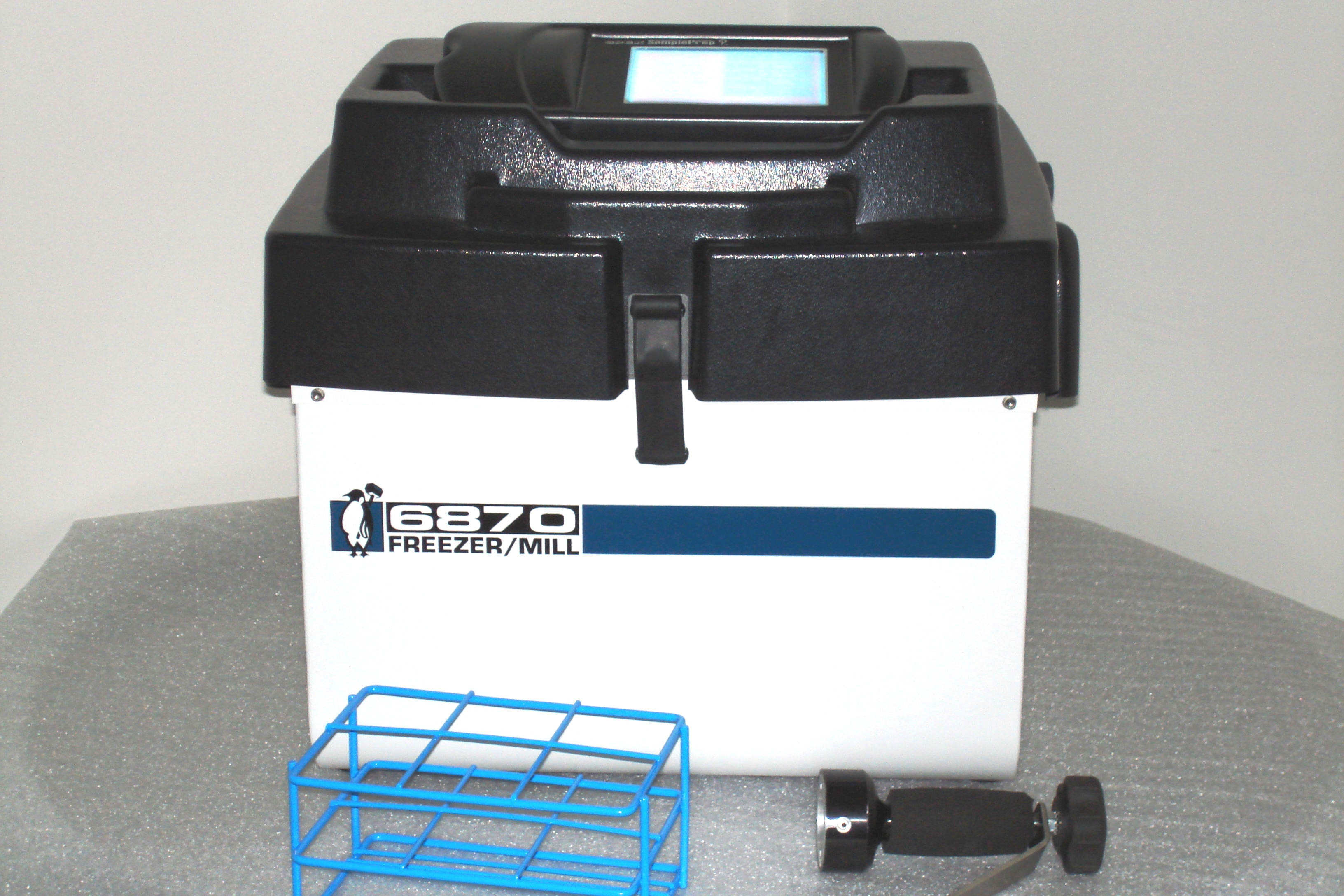 High Throughput or large capacity cryogenic grinder